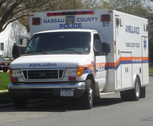 Emergency ambulance of Nassau County Police Department (Long Island, New York), with "AMBULANCE" in mirror writing ("ECNALUBMA").